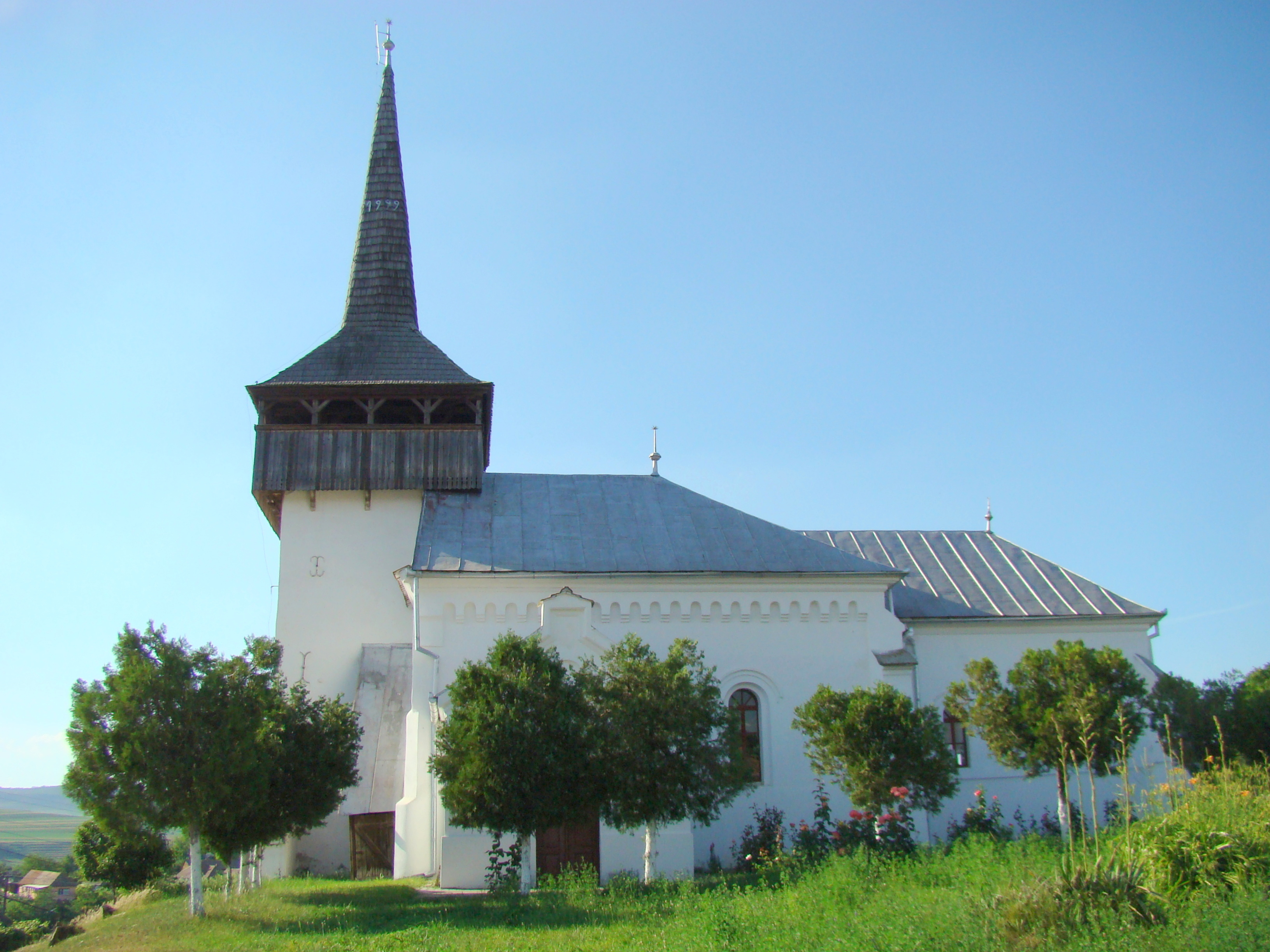 Reformed church in Bucerdea Grânoasă, Alba county, Romania